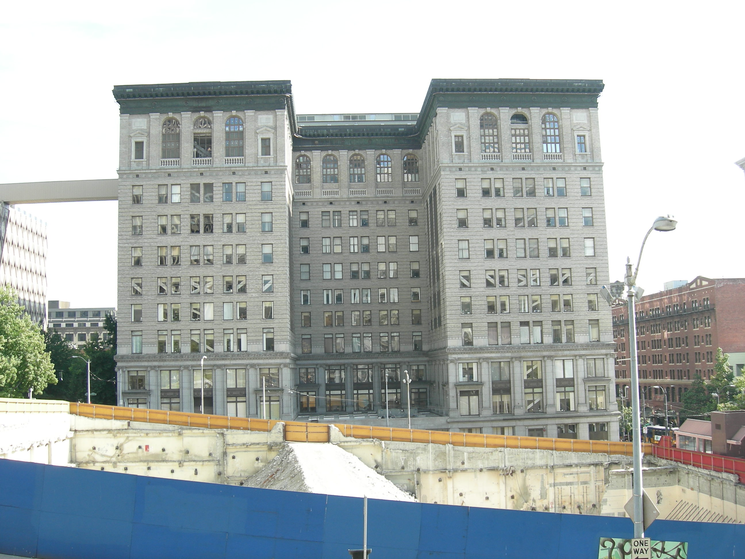 King County Courthouse, 3rd Avenue and James Street, Seattle, Washington, USA.